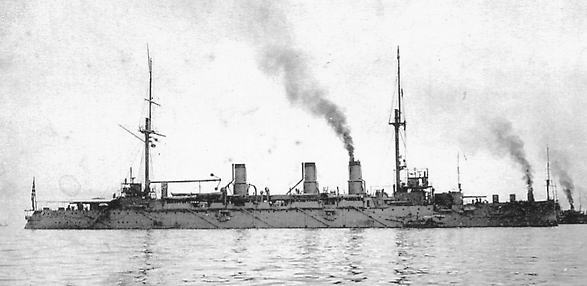 Japanese cruiser Azuma in approximately 1905 (gun platforms on masts were removed by May 1905)